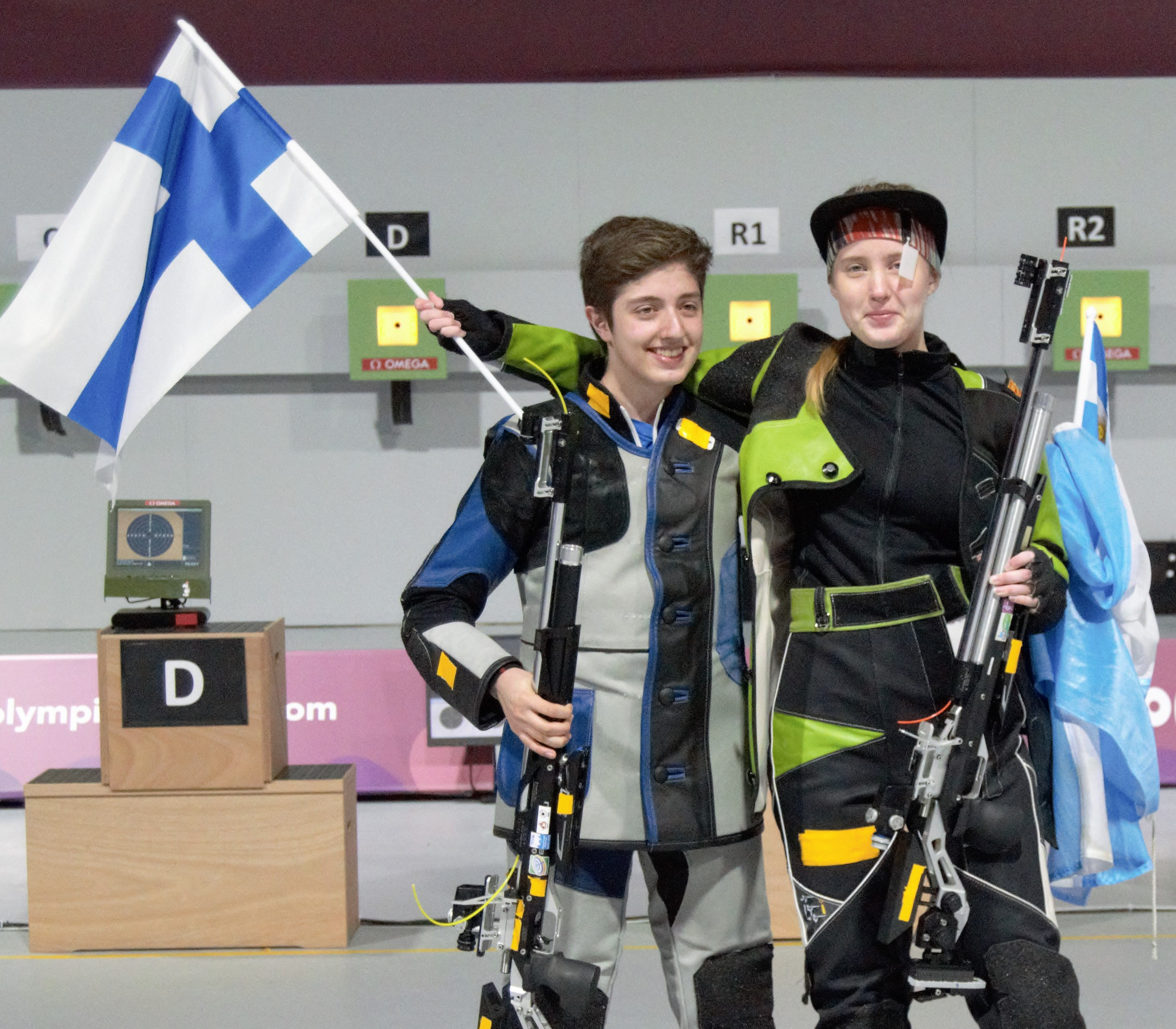 Facundo Firmapaz and Viivi Natalia Kemppi celebrating their victory after the bronze medal match of the 10m air rifle tournament at the 2018 Summer Youth Olympics.